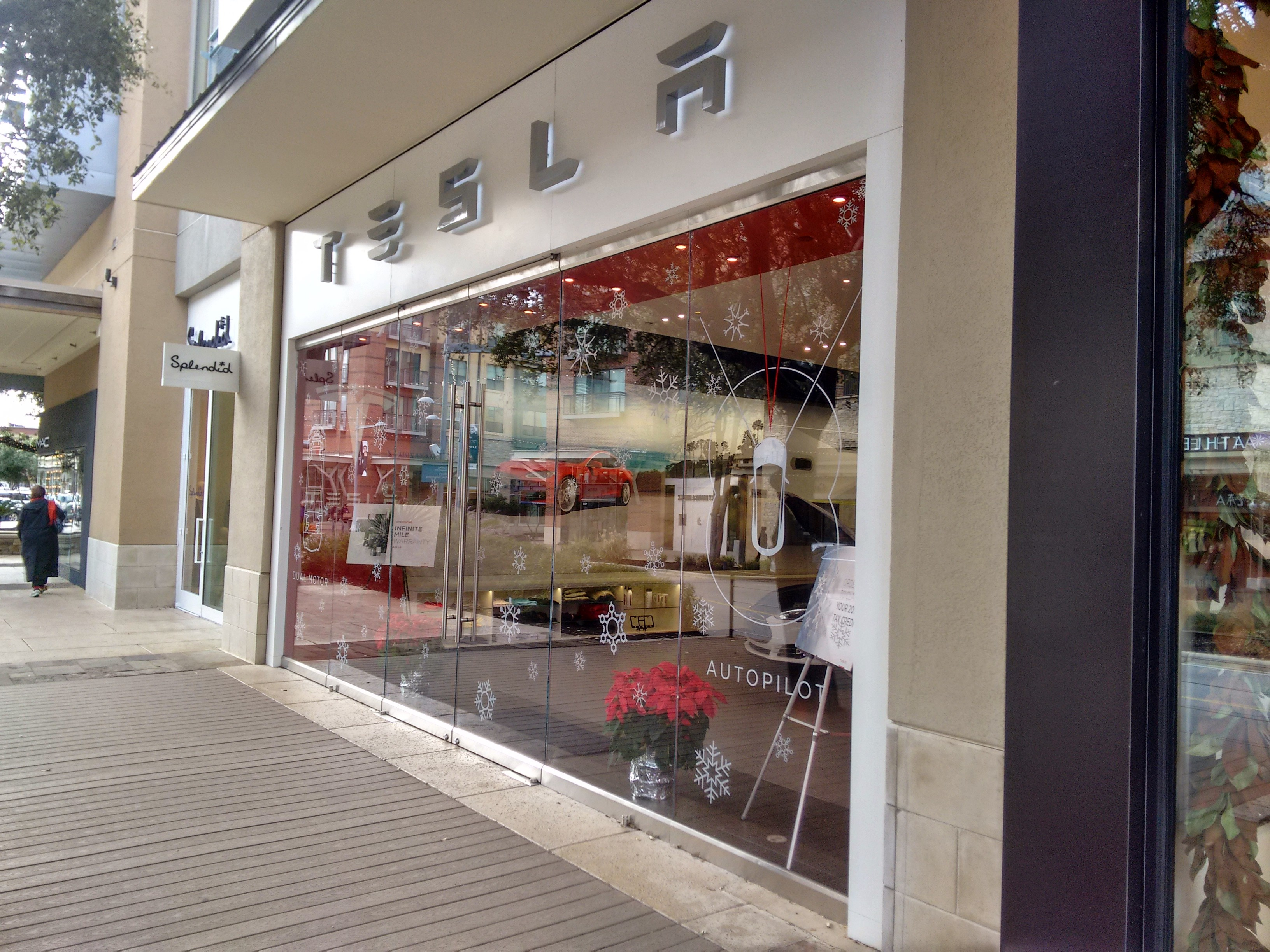 Tesla store, Austin, Texas